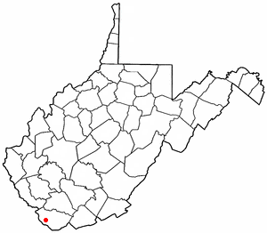 Looks like a map or something